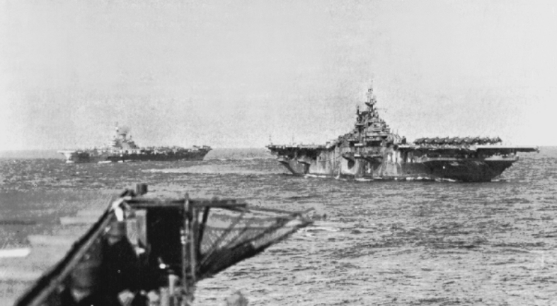 The U.S. Navy aircraft carrier USS Randolph (CV-15) and the Royal Navy aircraft carrier HMS Indefatigable (R10) underway off Japan in 1945. Still on alert in case the Japanese surrender was a deception, the large carriers of the Task Force 38 remained at sea while the battleships and some light carriers entered Sagami Bay and then Tokyo Bay for the official Japanese surrender. The photo was taken from the USS Wasp (CV-18).